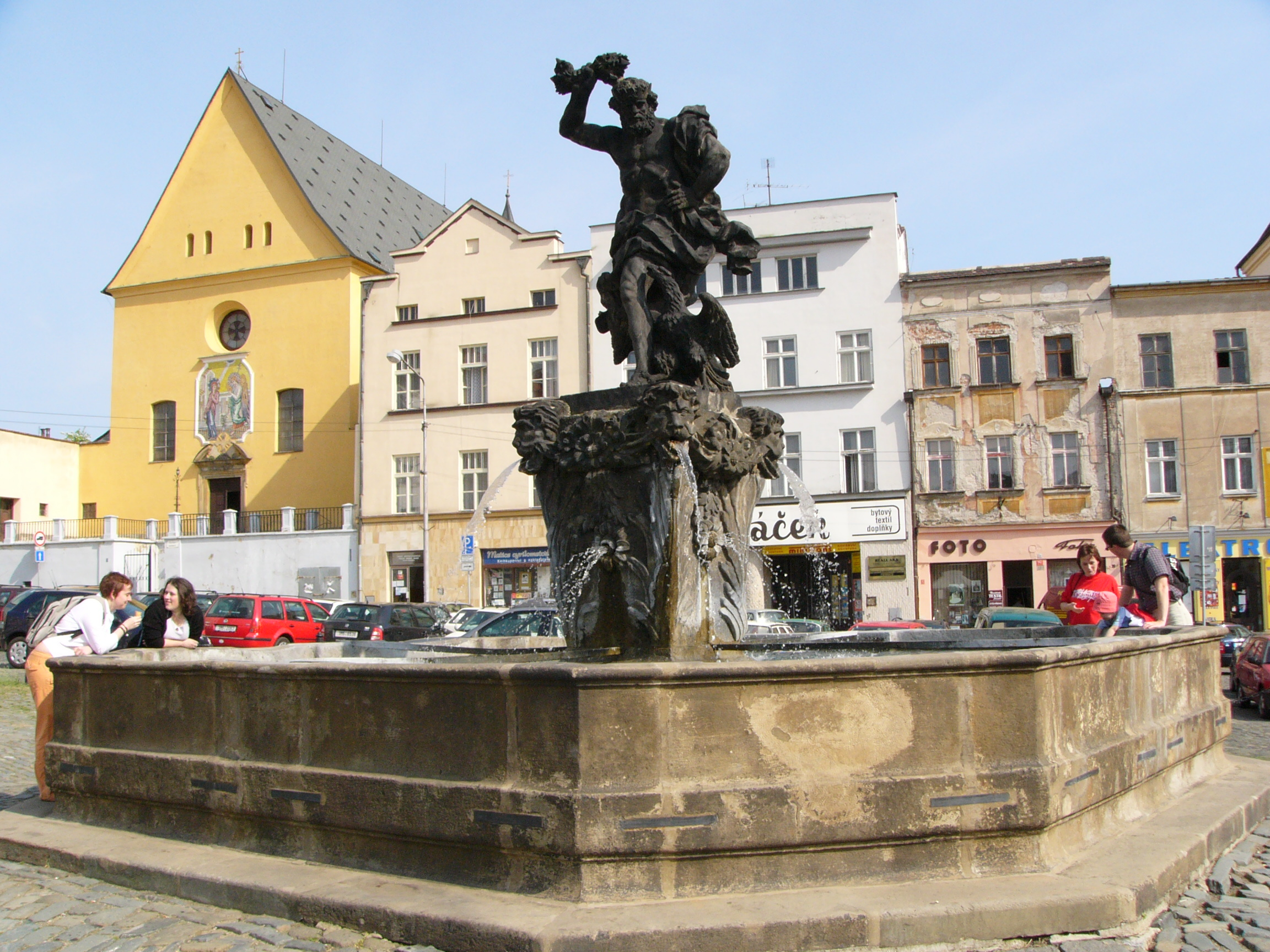 Fountain of Jupiter in Olomouc (Czech Republic).